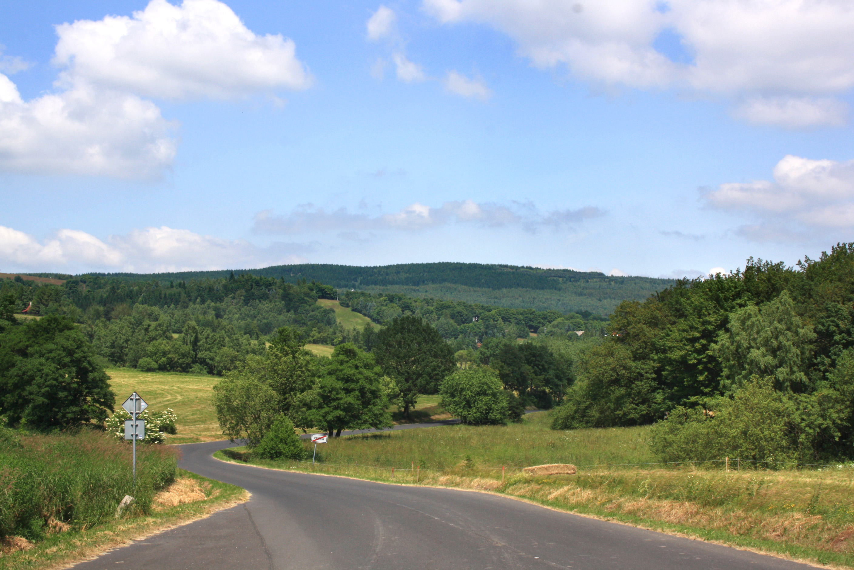 View from Radenov, part of Blatno, Czech Republic, to the notrh